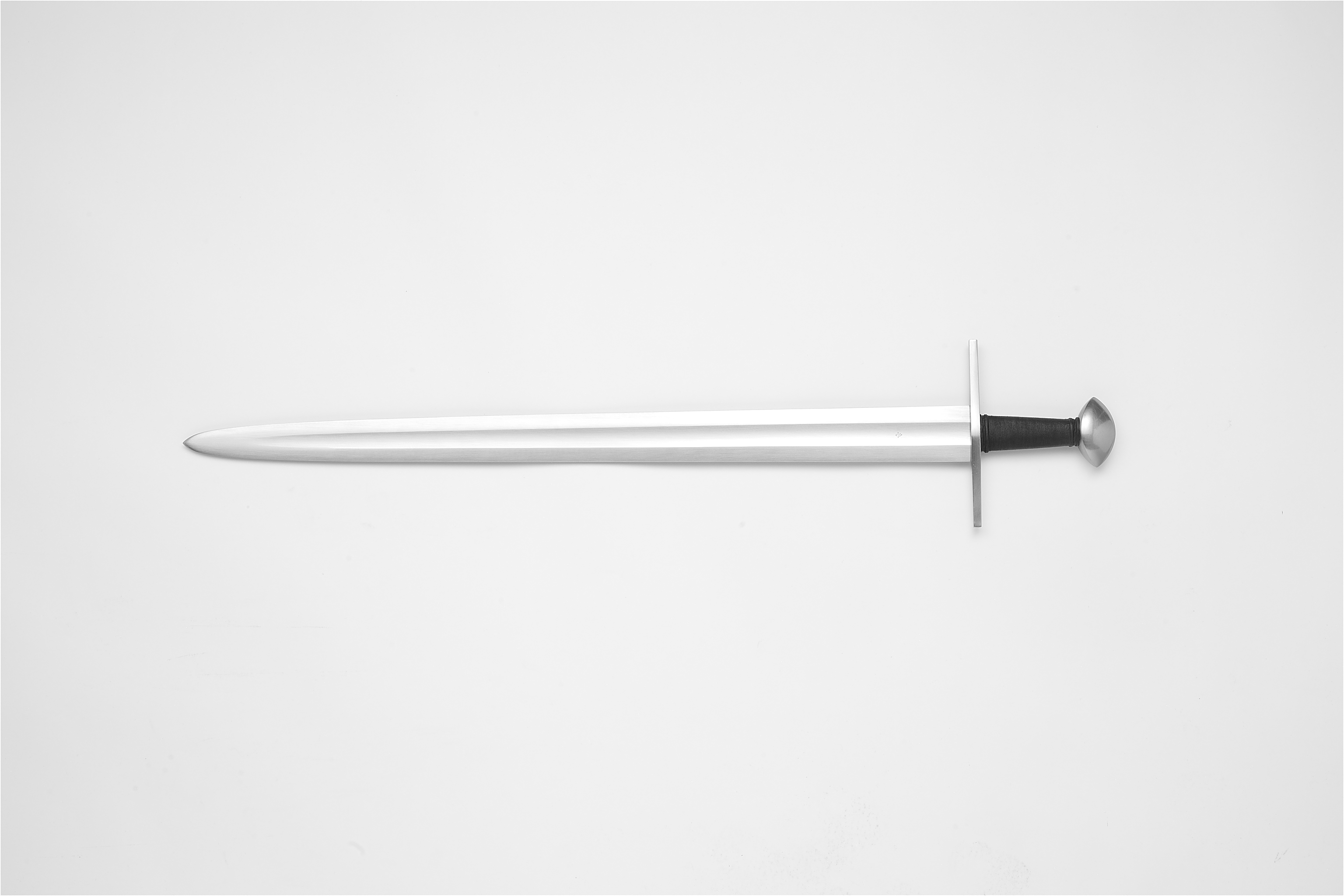 The Reeve Limited Edition Medieval Sword